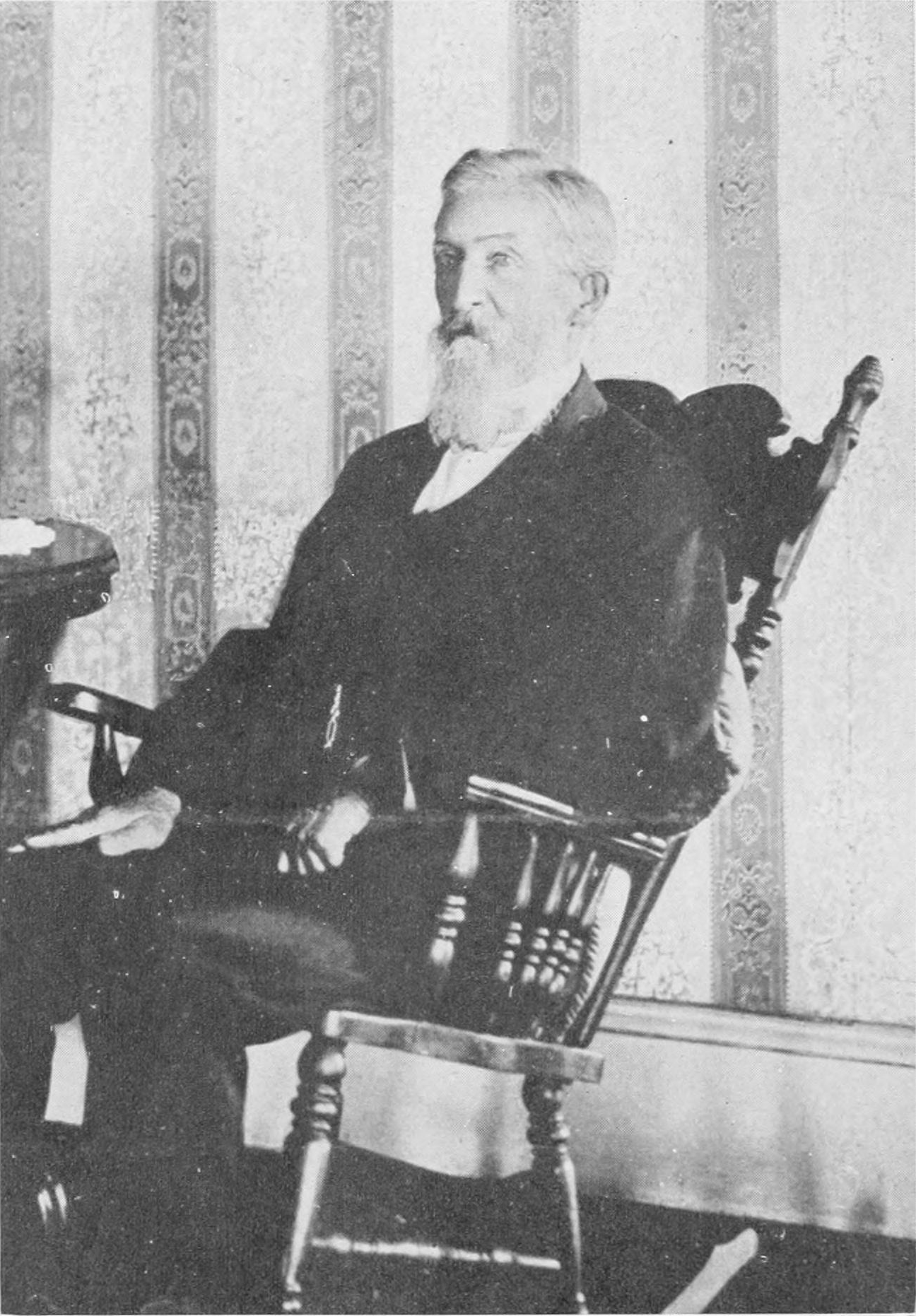 David Dwight Baldwin (1831–1912) was a businessman, educator, and biologist on Maui in the Hawaiian islands. He published the first catalog of Hawaiian land snails in 1893.